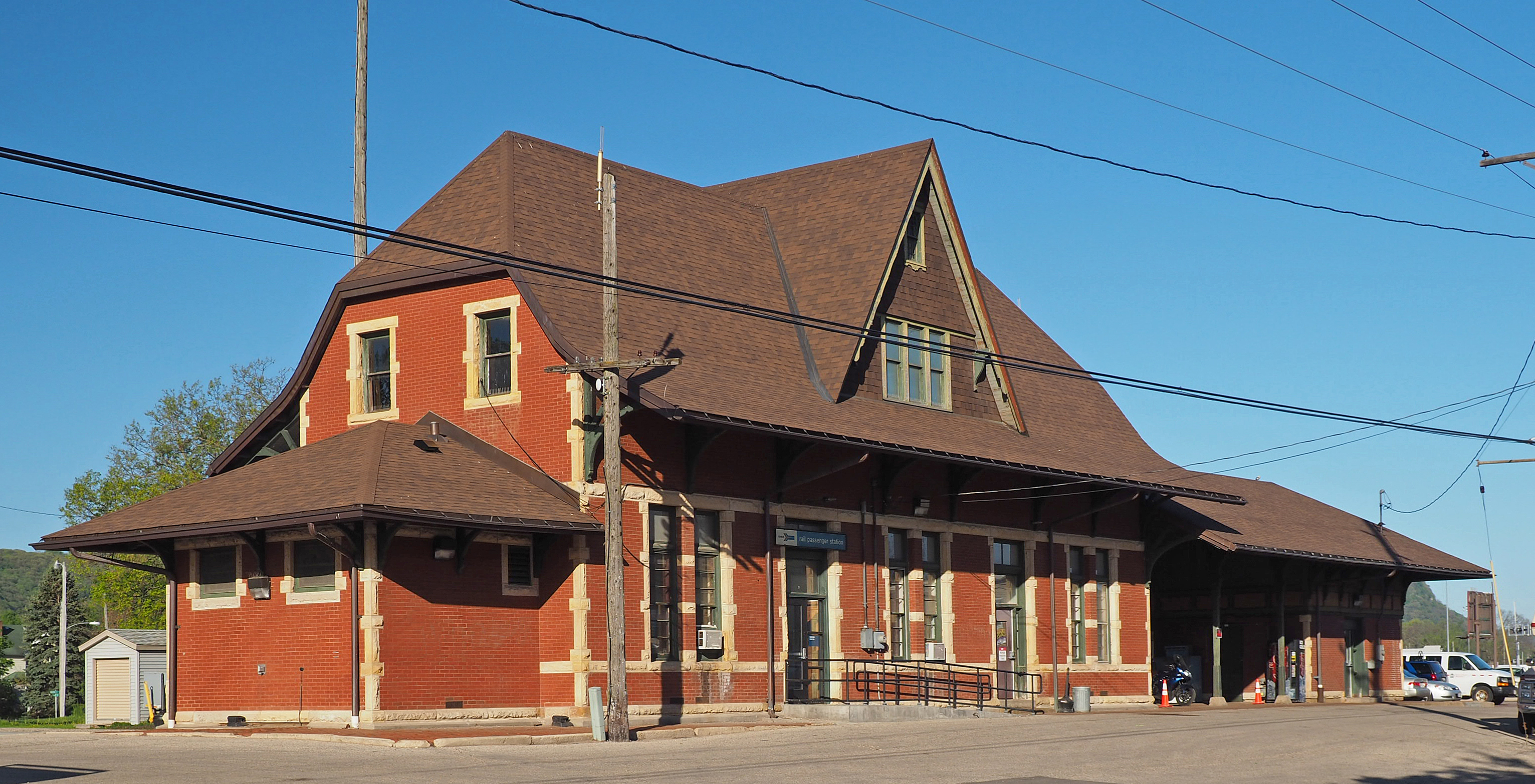 Winona Depot, 65 E Mark St, Winona, Minnesota, USA. Viewed from the east-northeast.